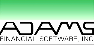 Adams Financial Software, Inc. logo